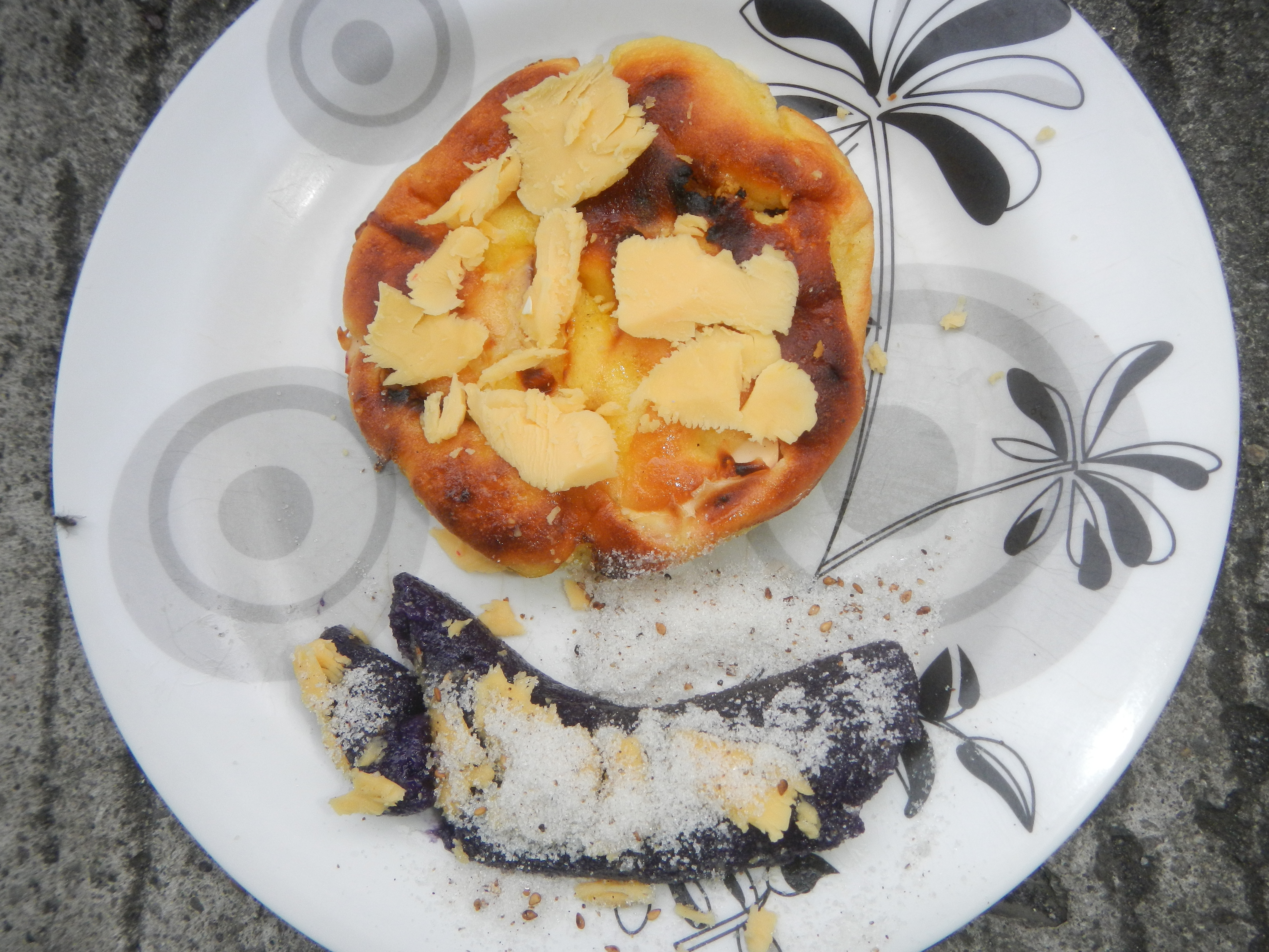 Bibingka and Puto Bumbong (Note: Judge Florentino Floro, the owner, to repeat, Donor Florentino Floro of all these photos hereby donate gratuitously, freely and unconditionally all these photos to and for Wikimedia Commons, exclusively, for public use of the public domain, and again without any condition whatsoever).